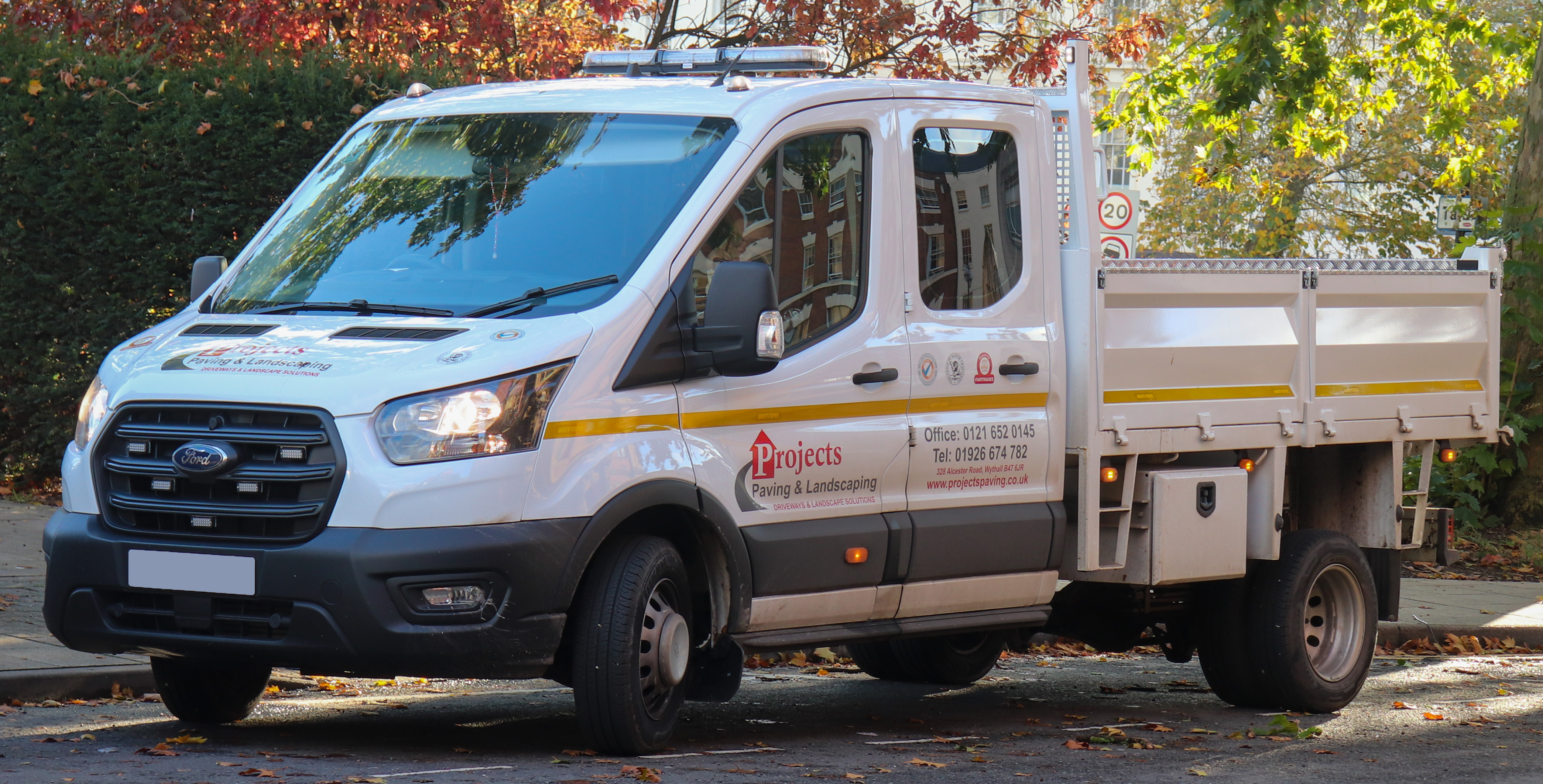 2019 Ford Transit 350 Leader Ecoblue 2.0 Taken in Leamington Spa